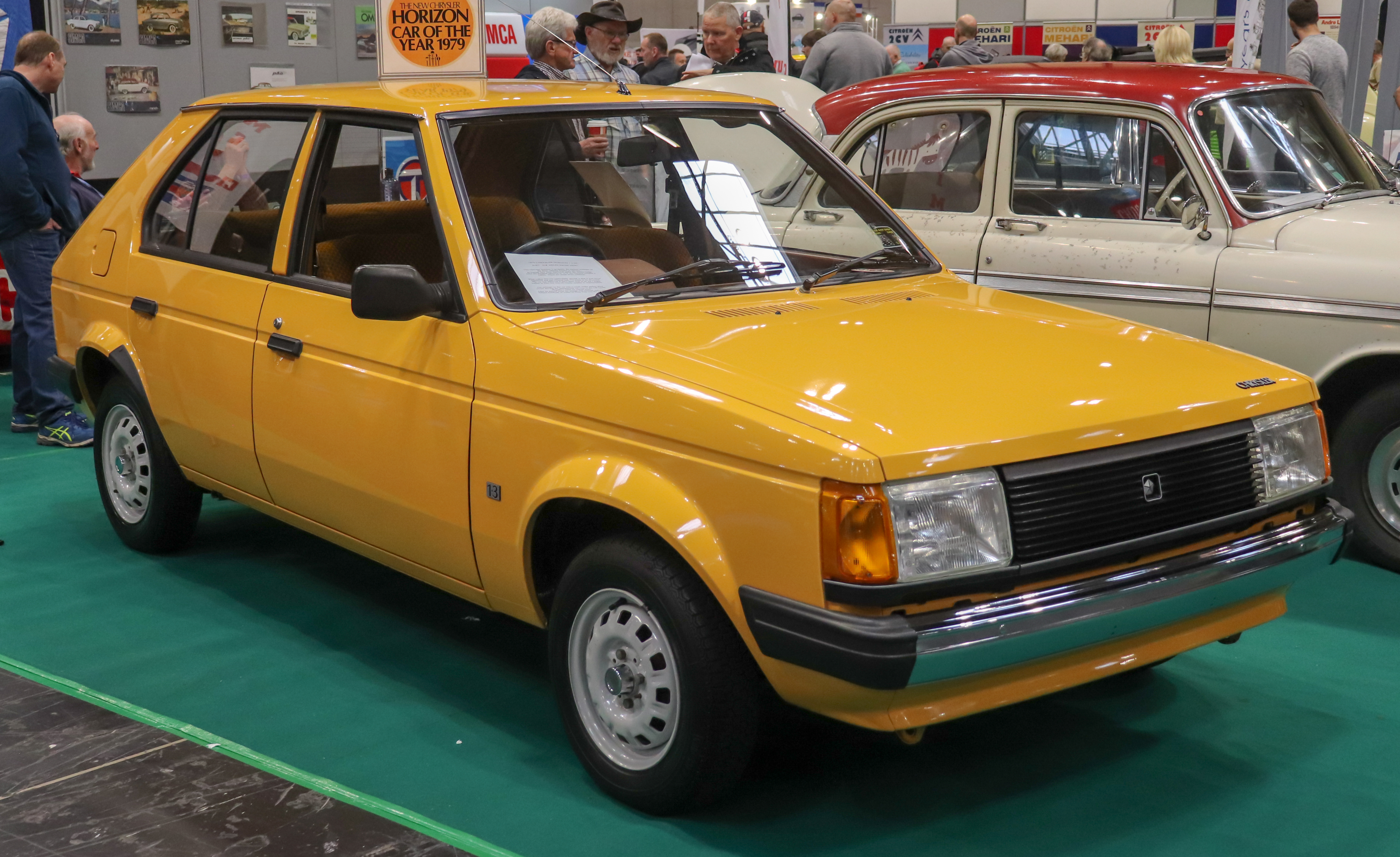 1978 Chrysler Horizon GL Front (Only done 300 miles and never been registered. The first owner took it for a 300 mile drive to Bristol without a number plate.) Taken at the NEC Classic Motor Show 2018